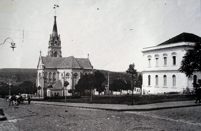 Jaú, 1920